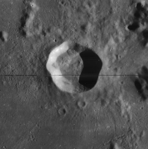 Theaetetus (crater), on the moon.